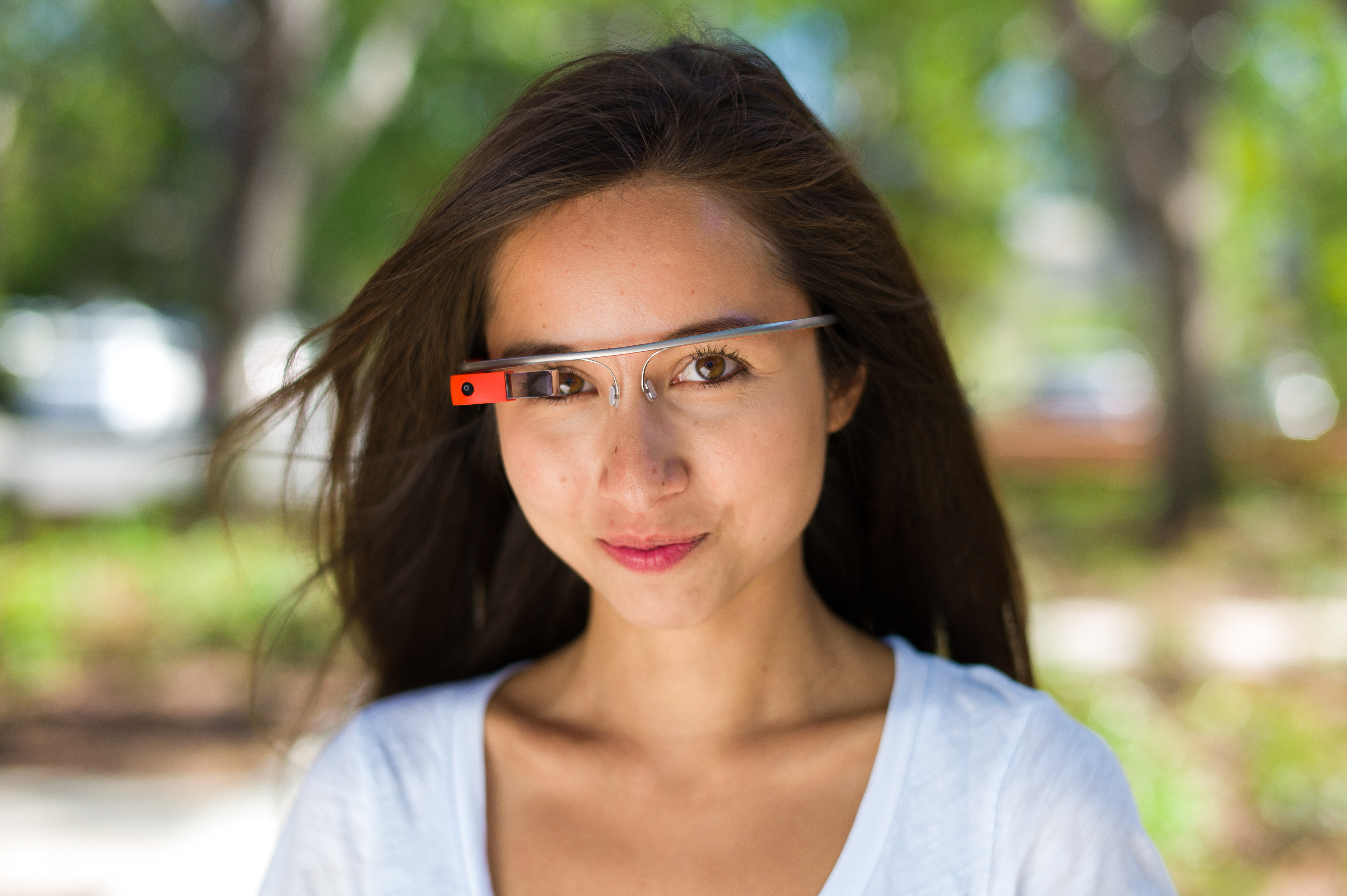 Google executive Amanda Rosenberg modeling the Google Glass face mounted wearable computer.